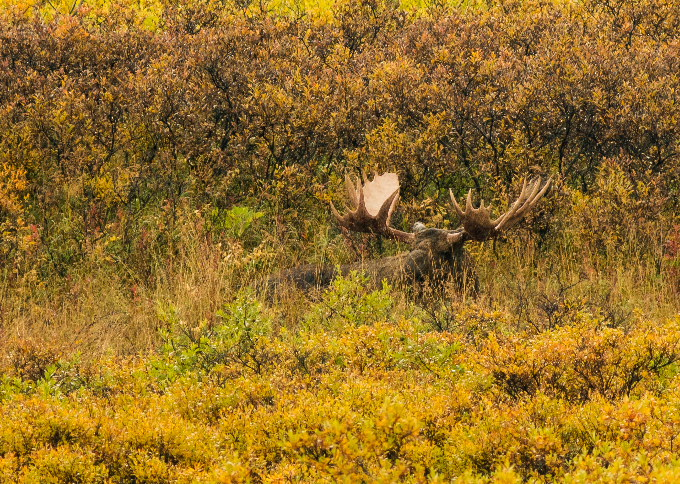 Moose (Alces alces), Denali National Park, Alaska, United States